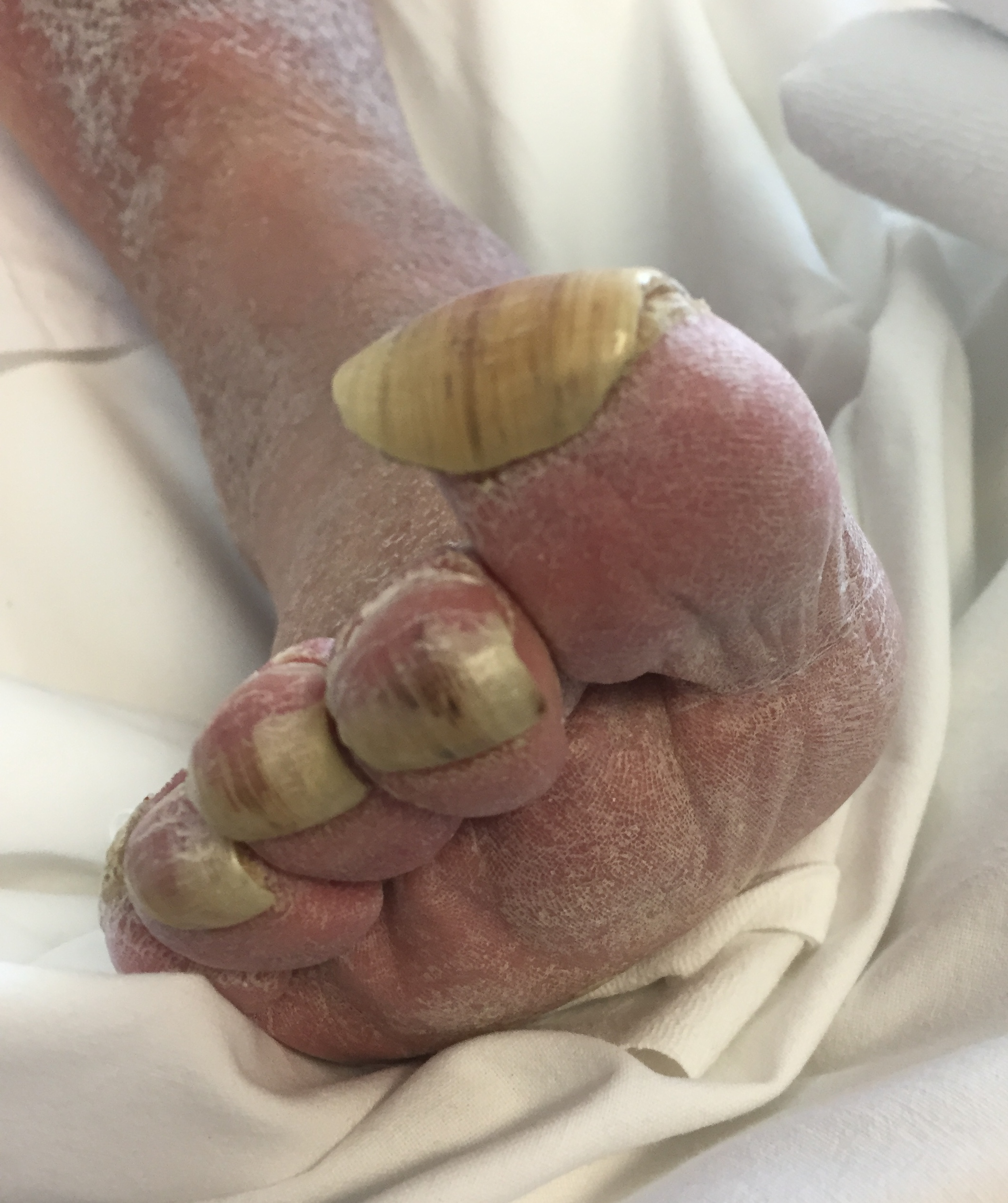 Ram's horn toenails on a bedridden patient (thanks to RN Vesna Grubješić)